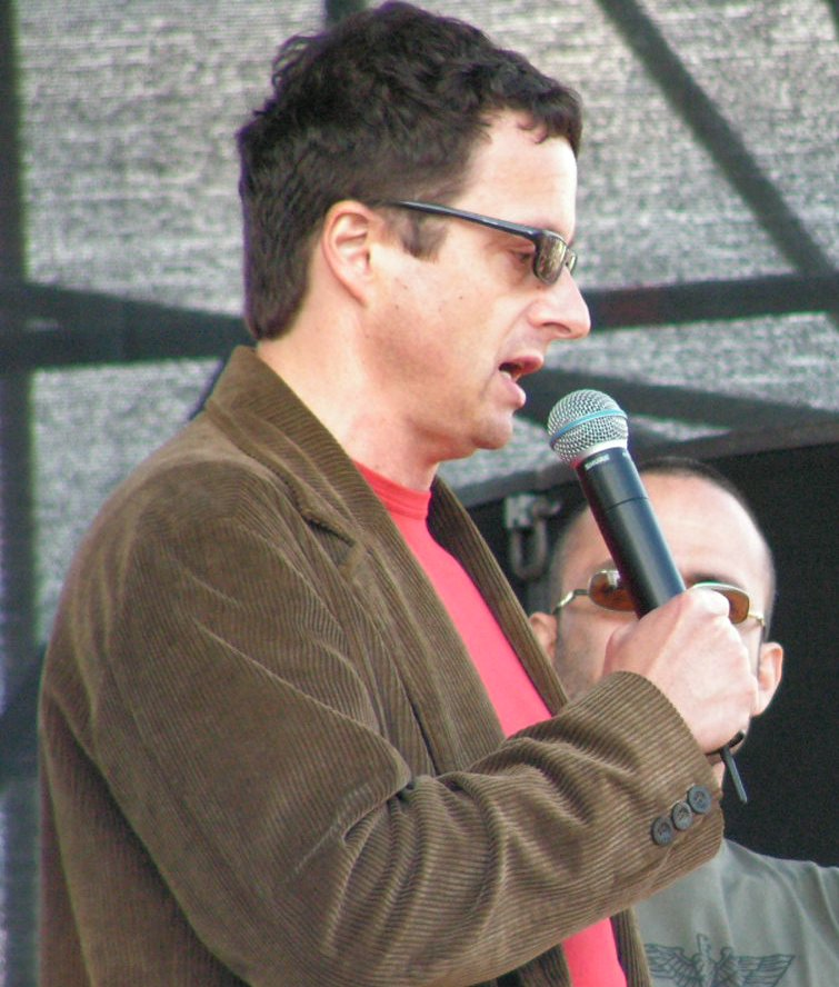 Michal Viewegh, Czech writer and publicist.